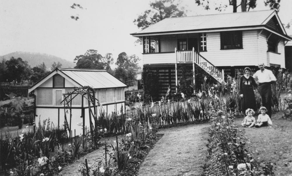 Irene and Cecil Harveyson posing in their backyard in Ashgrove, Brisbane, ca. 1929 The house is located at 39 Dorrington Avenue in Ashgrove. (Description supplied with photograph.).